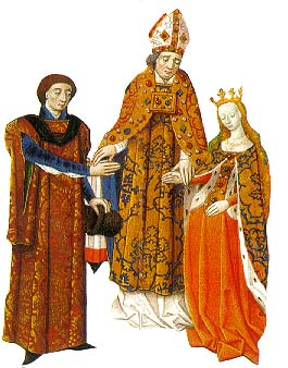 Queen Melisende marries Fulk of Anjou, Miniature, William of Tyre, Histoire de la Conquête de Jérusalem. Found in Tate, The Crusaders, Warriors of God, p. 71.